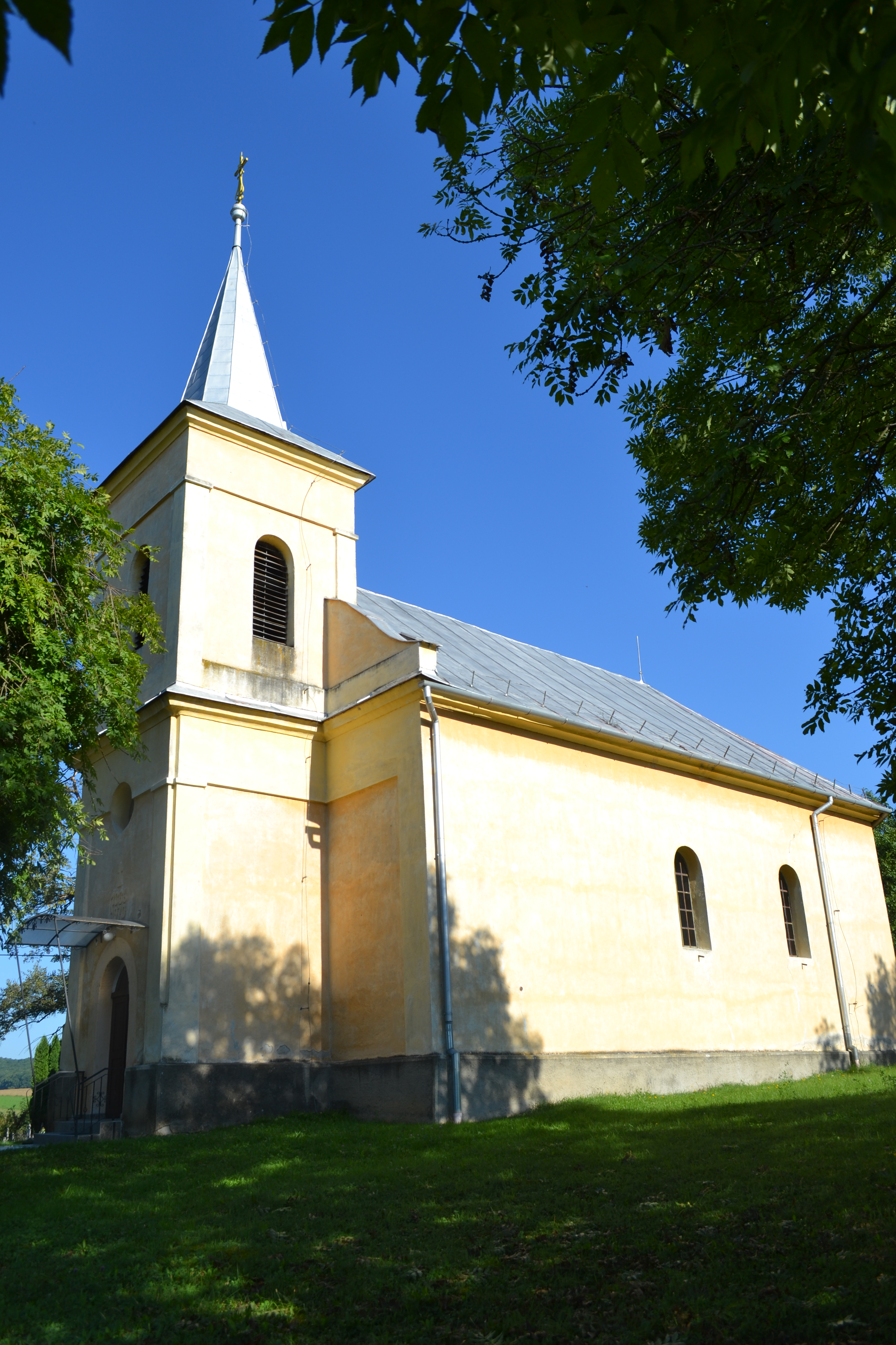 Church of St. Elizabeth of Hungary in Gemerček